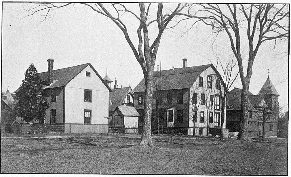 Dr. Sheffield’s Laboratory, circa 1893.